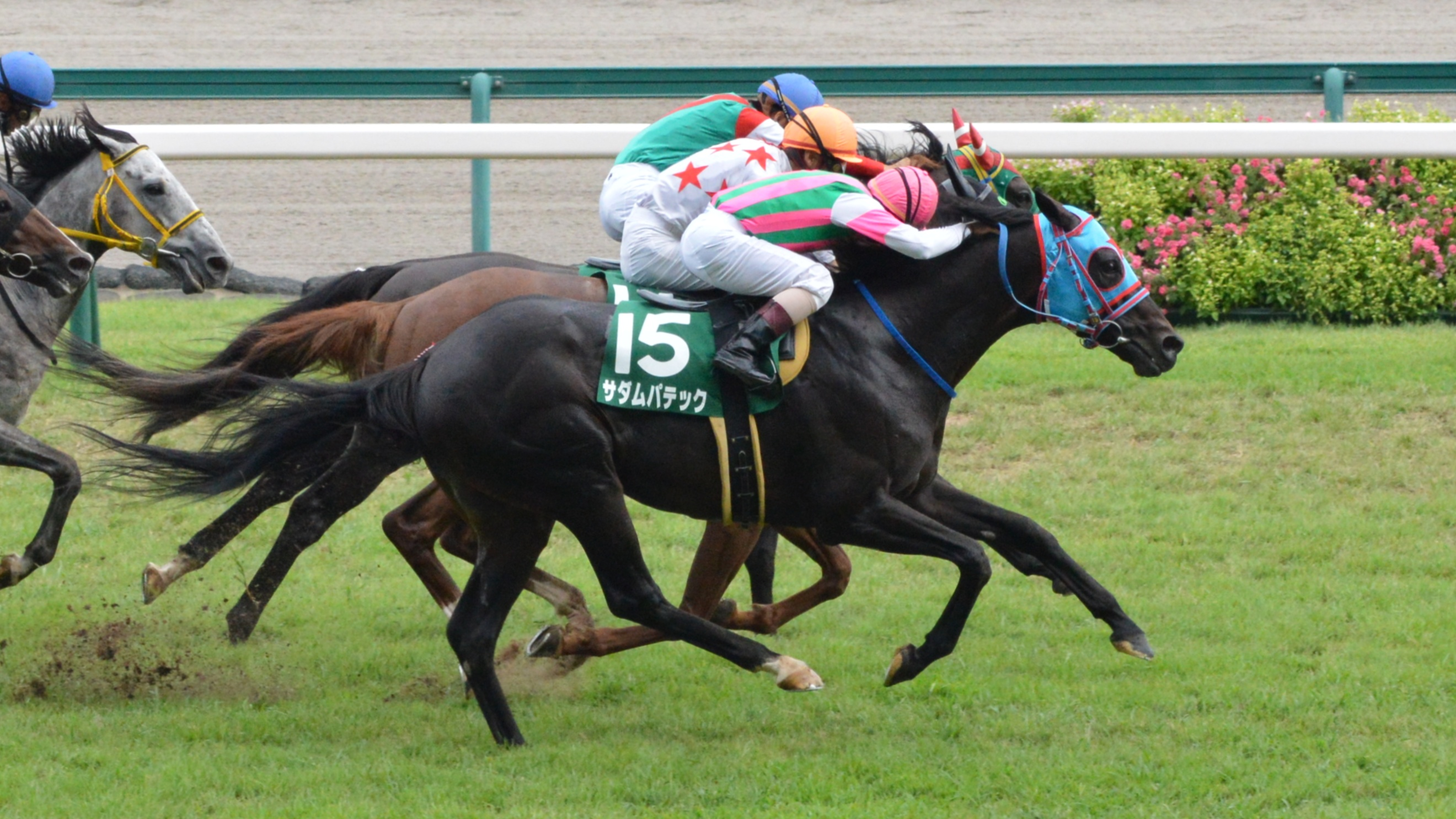 Japanese race horse Sadamu Patek at Chukyo racecourse. Chukyo (JPN) 27 Jul 2014Toyota Sho Chukyo Kinen (Grade 3 Handicap) (Turf) (3yo+) 1m Good RankHorse NameOddsAgeWgtJockeyTrainer1stSadamu Patek (JPN)142/10H69-2Katsuharu TanakaMasato Nishizono2ndMikki Dream (JPN)30/1H78-11Keisuke DazaiHidetaka OtonashiOthers are omitted. (16 horses entered in a race.)